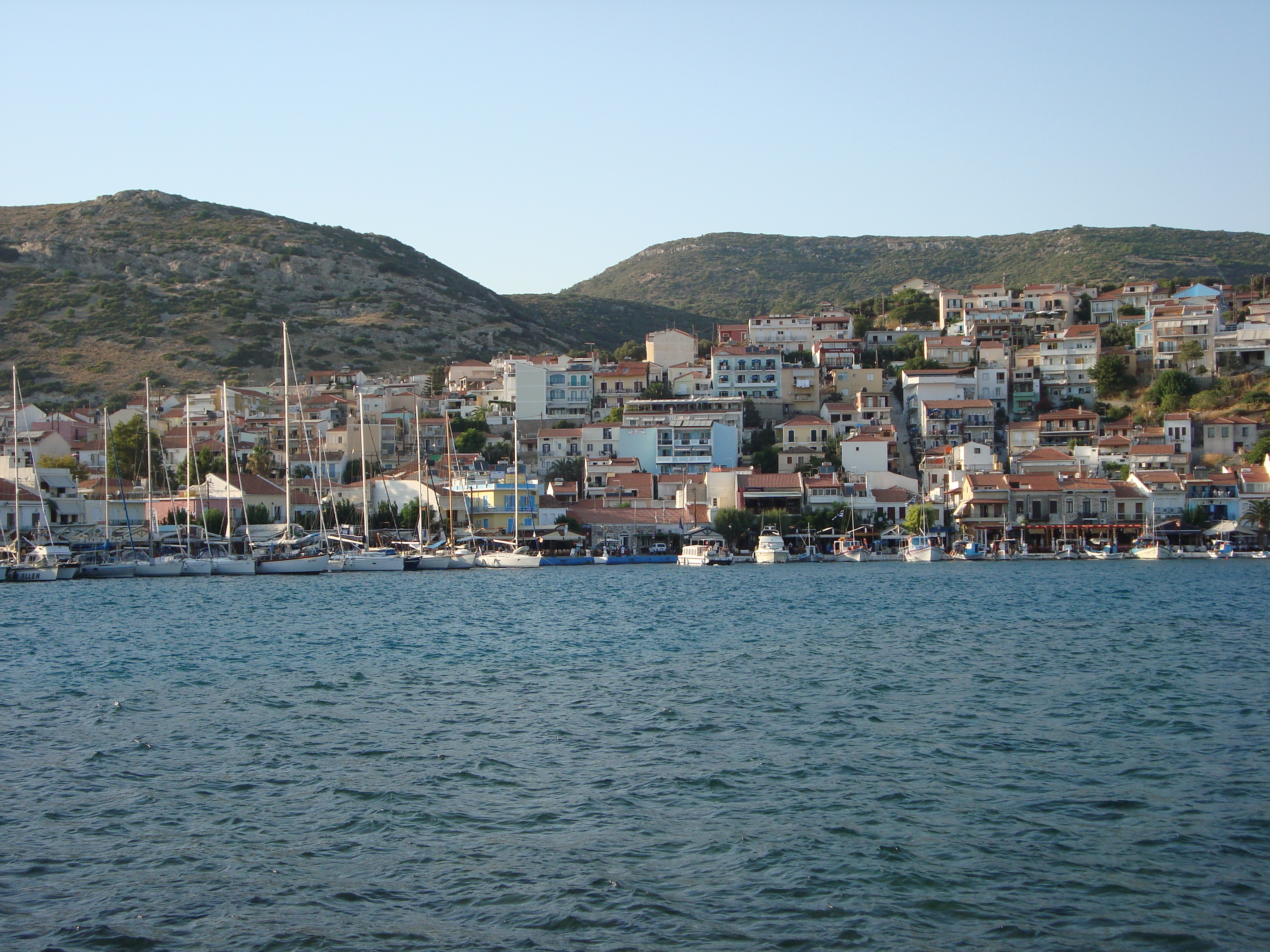 The harbour of Pythagoreio in Samos, Greece.